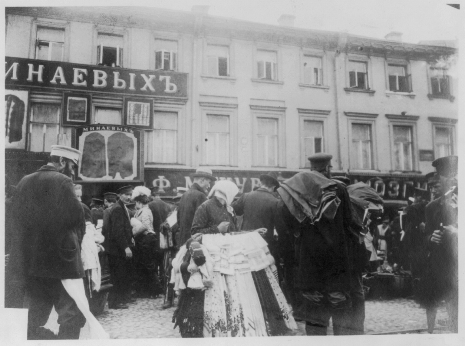 Title: Russia, ca. 1920 Abstract: Street market scene. Physical description: 1 photographic print. Notes: "(9-20)."; Photograph by Frank G. Carpenter; This record contains unverified data from caption card.